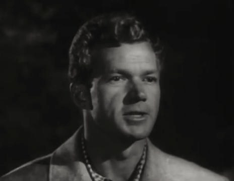 Bill Williams in The Pace That Thrills (1952) - trailer (cropped screenshot)